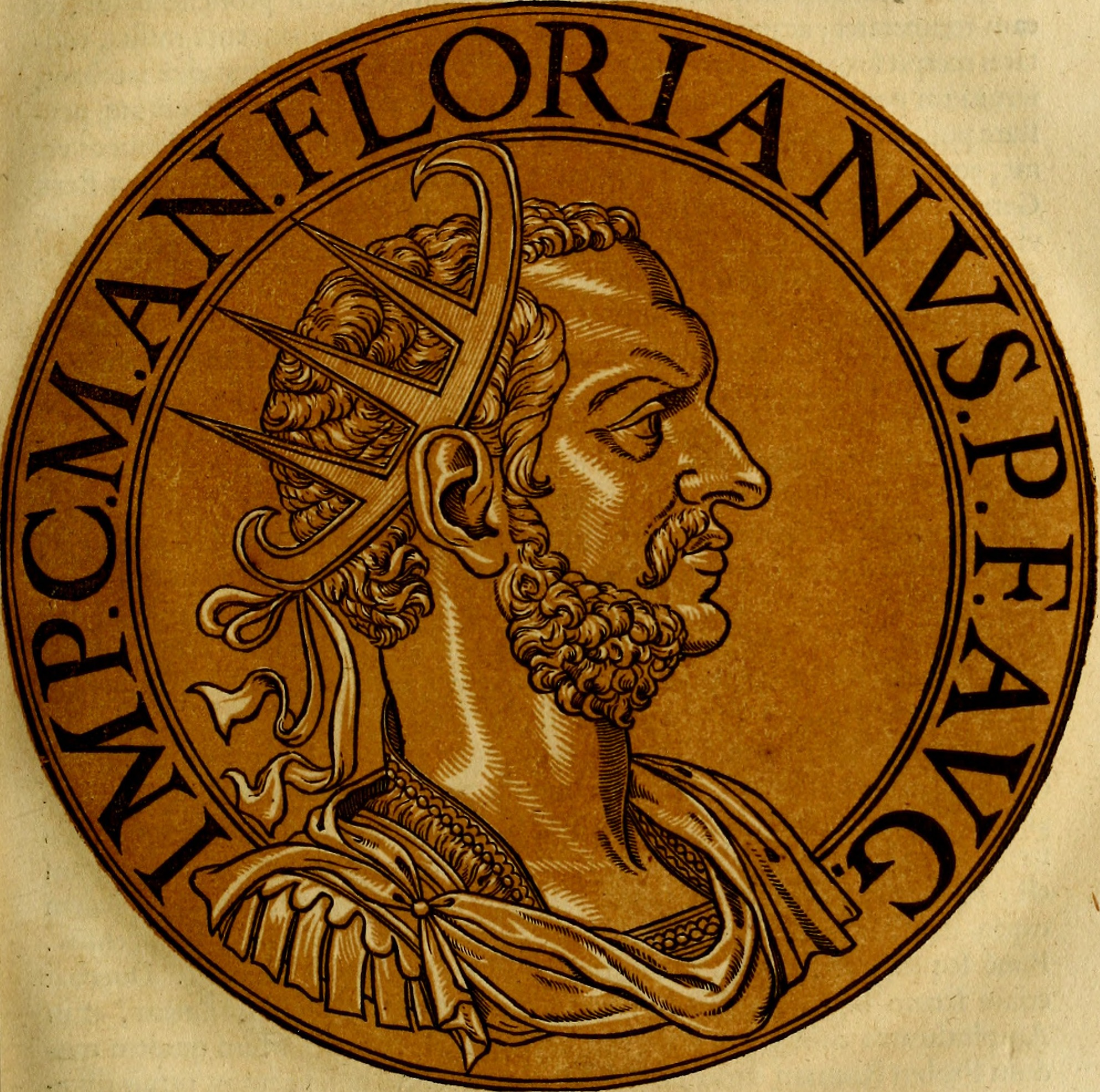 Title: Icones imperatorvm romanorvm, ex priscis numismatibus ad viuum delineatae, & breui narratione historicâ Year: 1645 (1640s) Authors: Goltzius, Hubert, 1526-1583 Gevaerts, Jean-Gaspard, 1593-1666 Rubens, Peter Paul, 1577-1640 Subjects: Emperors Emperors Numismatics, Roman Publisher: Antverpiae, Ex officina plantiniana Balthasaris Moreti Text Appearing Before Image: uod vt Florianonnrttiatum efiet, tantus ipfum metus externplb inuafit, tantumquecrudelitatem militum metuit? vt fbiutis fibi venis animam fimul currilanguine effuderit. Geftum autem id eft in Ponto , eo in loco vbiTacitus necem fratris viderat. Eb enim Tacitus exercitum fuumduxerat eo animo , vt interim Gothos profligaret, dum eorum mili-tes optimi quique cum Germanis ac Francis in Gallia effent. Tra-duntaliqui, milites Florianum adhuc viuum ofFendiffe , ipfumquefuis gladiis interfeciffe. Probus confeftim ad Senatum PopulumqueRomanum iftiufmodi litteras dedit , vt iis in Concordia: TemploIe6Hs, ab omnibus acclamatum fit : Probus Auguftus temper viuat,feliciter imperet. multofque ei titulos, nomina &C honores attribue-rint. Qua: quidem omnia &C Senatus confirmauit: tantumque laeri-tije Romas quantum in exercitu fuit. Hinc omnis triftitia in gau-dium verfa eft : luxerant enim iam ahtea Aurelianum , ac deindcTaciturn 5£ Florianum. 107 LIIL qj/I VNI FACIT INIVRIAM,MVLTIS M1NATVR. Text Appearing After Image: In Imperio vixit 11, menfibus& XX. diebus: cum autem dubitaret quod regno deponeretur, fibi ipfe manum intulit. O 2